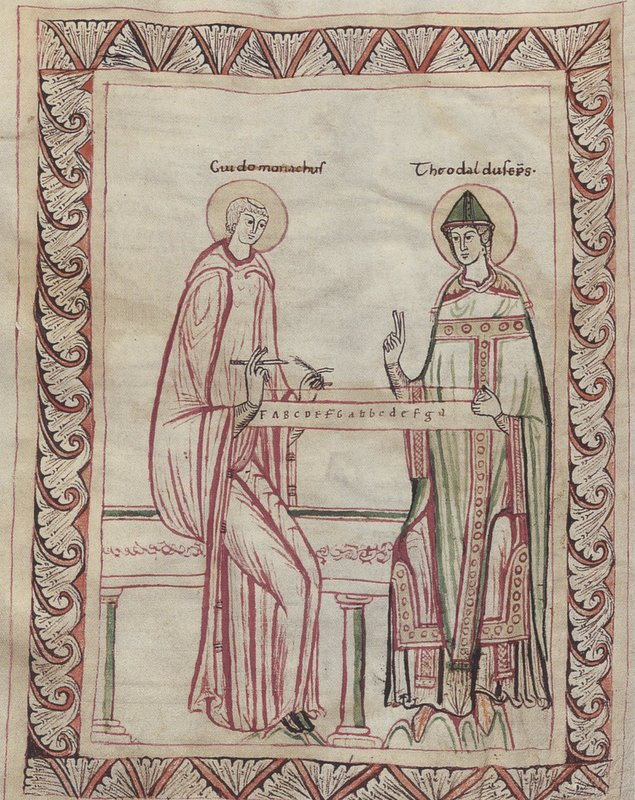 Guy of Arezzo and bishop Tedaldo of Canossa